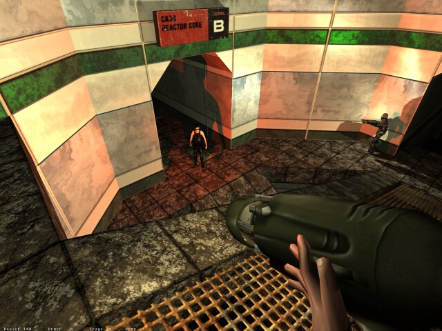 A screenshot of an online internet/network game in the Cafu Engine.